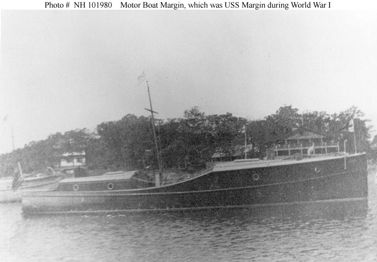 The private motorboat Margin prior to her service as the United States Navy patrol vessel .